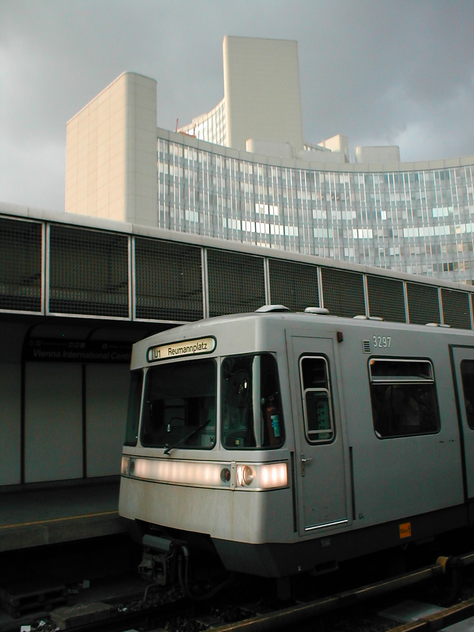 Austria, Vienna, Vienna International Centre